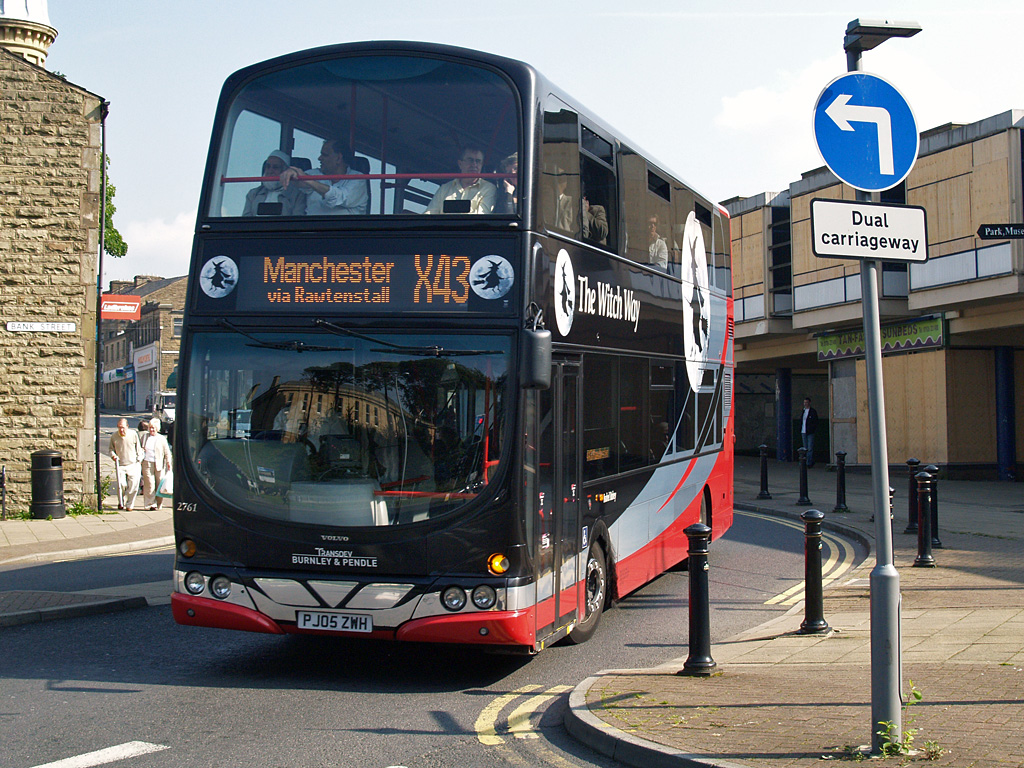 Burnley & Pendle Travel Limited 2761 (PJ05 ZWH) Isobel Roby, a Volvo B7TL built 2005 with a Wright Eclipse Gemini DPH39/29F body on Bank Street, Rawtenstall with the 11:04 Nelson bus station to Manchester Chorlton Street via Burnley, Rawtenstall and Prestwich X43 service. Thursday 18th September 2008